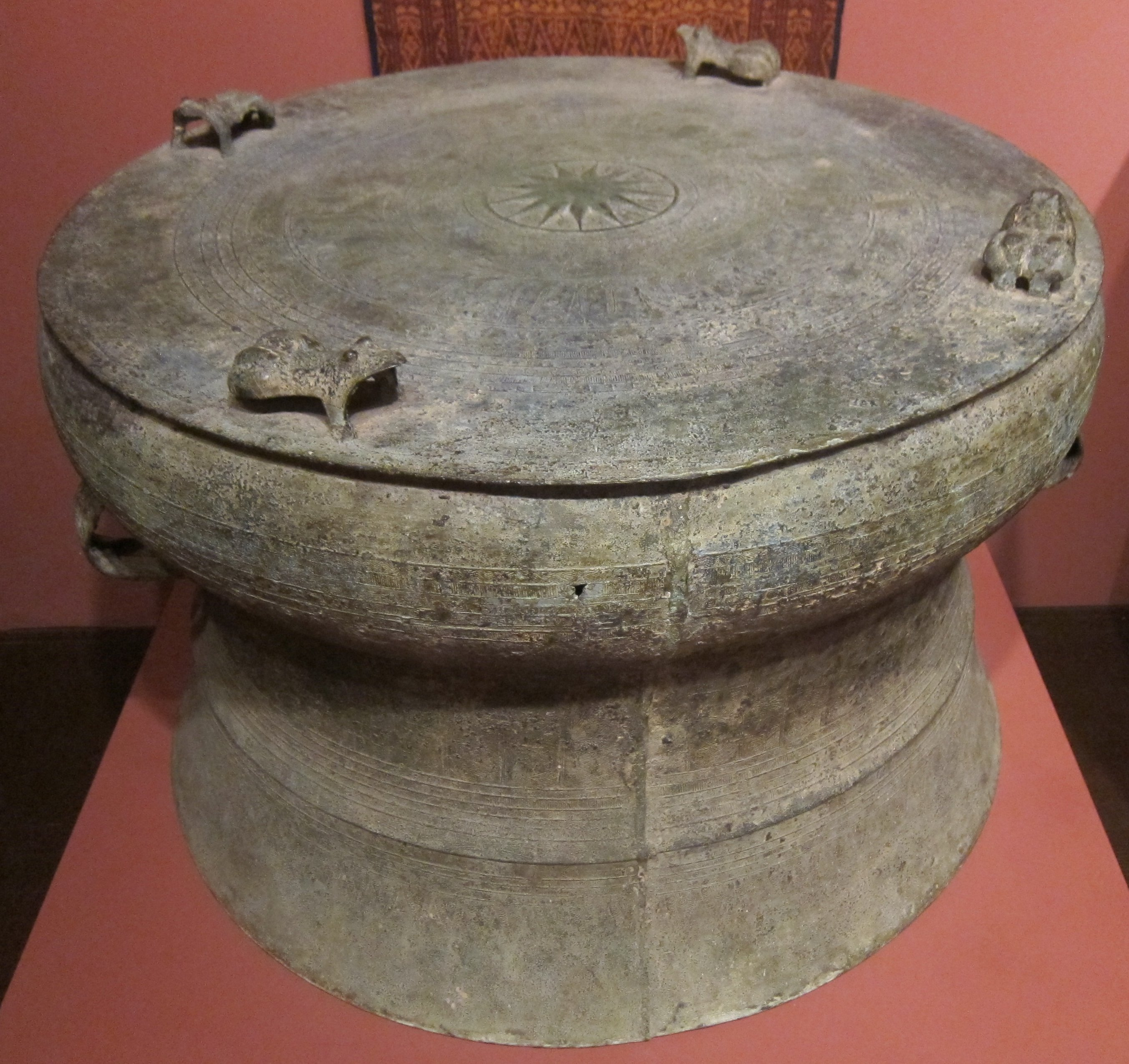 Drum, Dongson people, 4th century CE, bronze, Honolulu Museum of Art